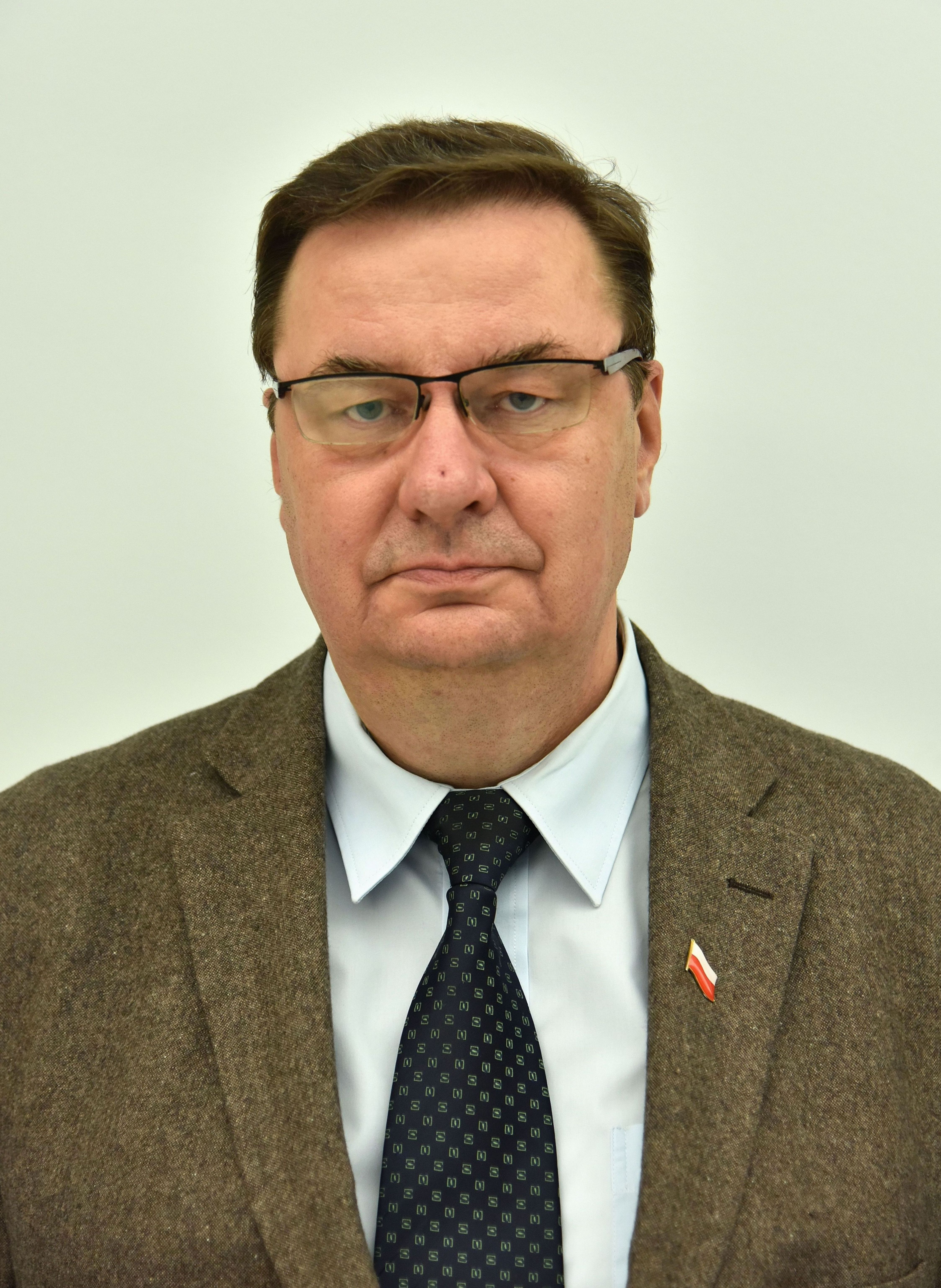 Polish MP Szymon Giżyński in the Sejm